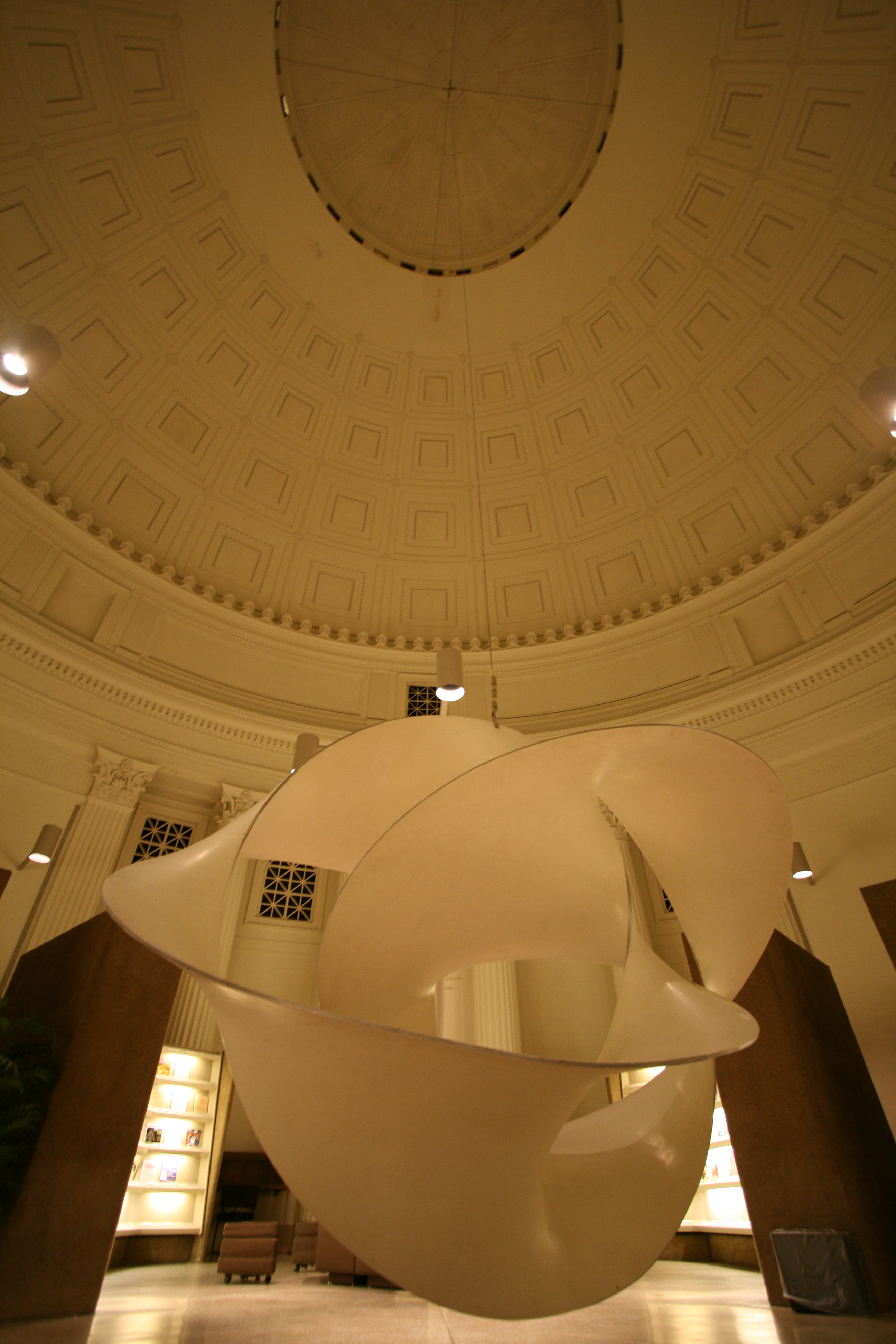 MIT's Barker Library inside the Great Dome of Building 10